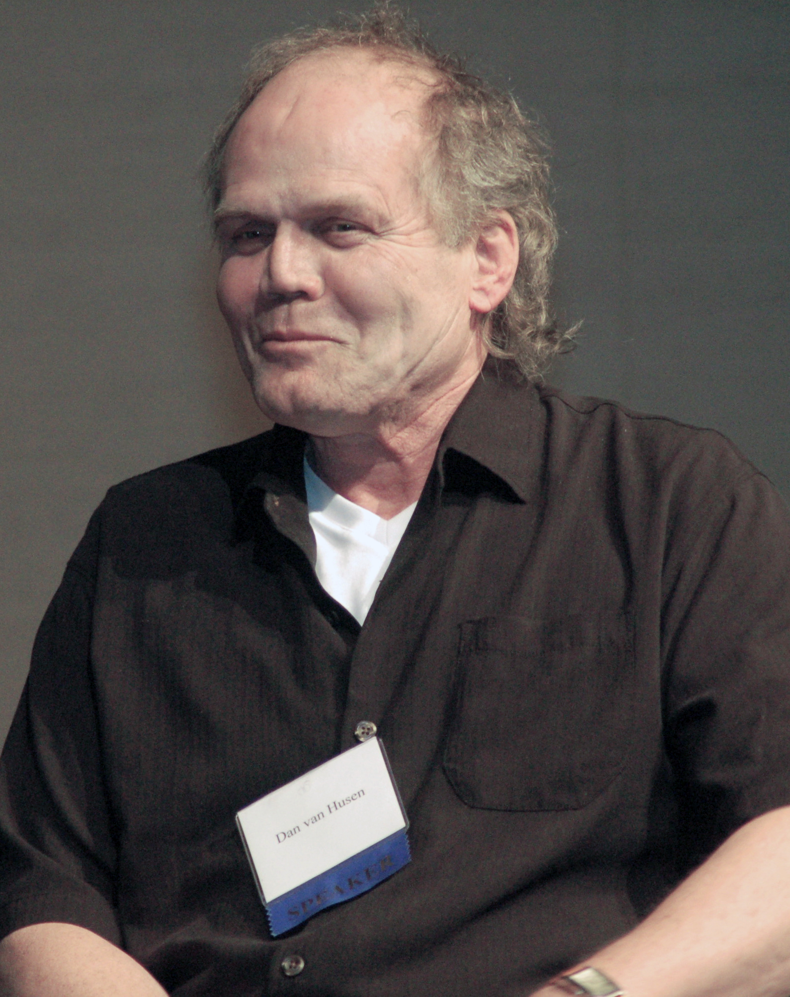 Dan van Husen at the 1st Los Angeles Spaghetti Western Festival in March 2011.